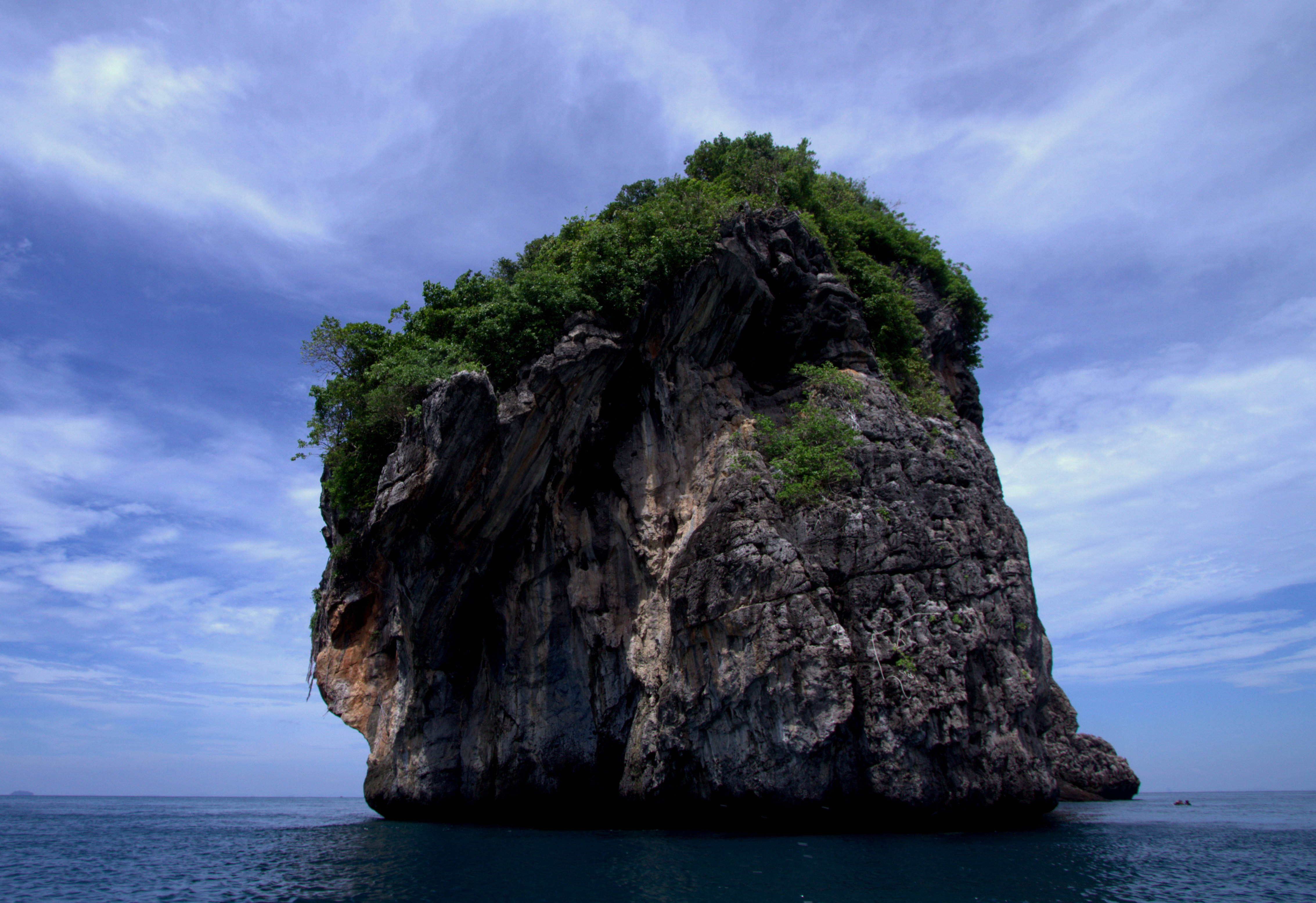 Karst limestone in Nui Bay, Ko Phi Phi Don